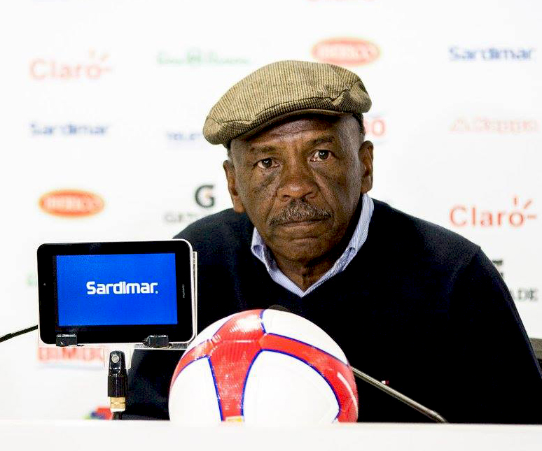 Carlos Watson in 2016 as head coach of Deportivo Saprissa.